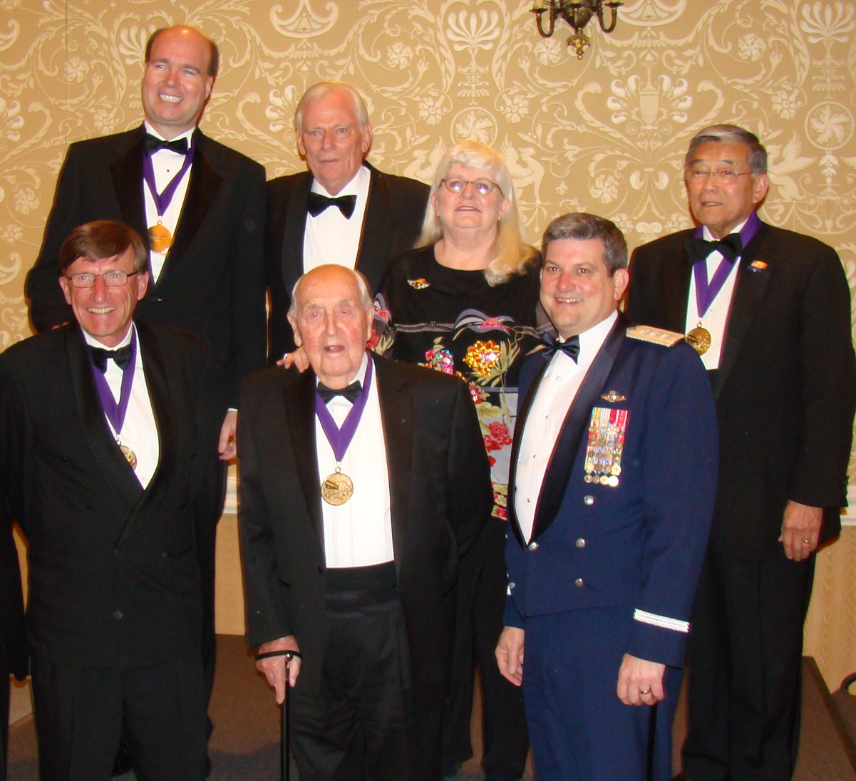 Tony Jannus Award recipients at the annual Awards Banquet, in Tampa (l–r, front row:) Angus Kinnear—USA3000 Airlines, Sir Lenox Hewitt—Chairman, Qantas Airways (rear:) Larry Kellner—CEO of Continental Airlines, Herb Kelleher—Founder of Southwest Airlines, Colleen Barrett, and Norman Mineta